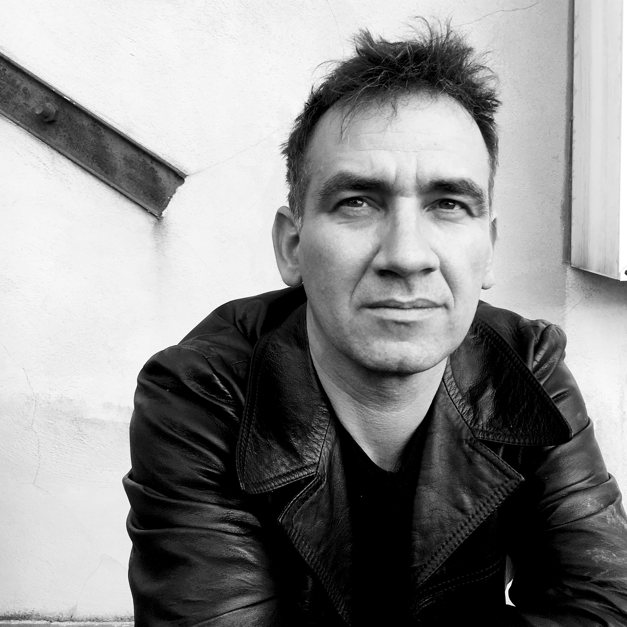 Thomas Woschitz 2017